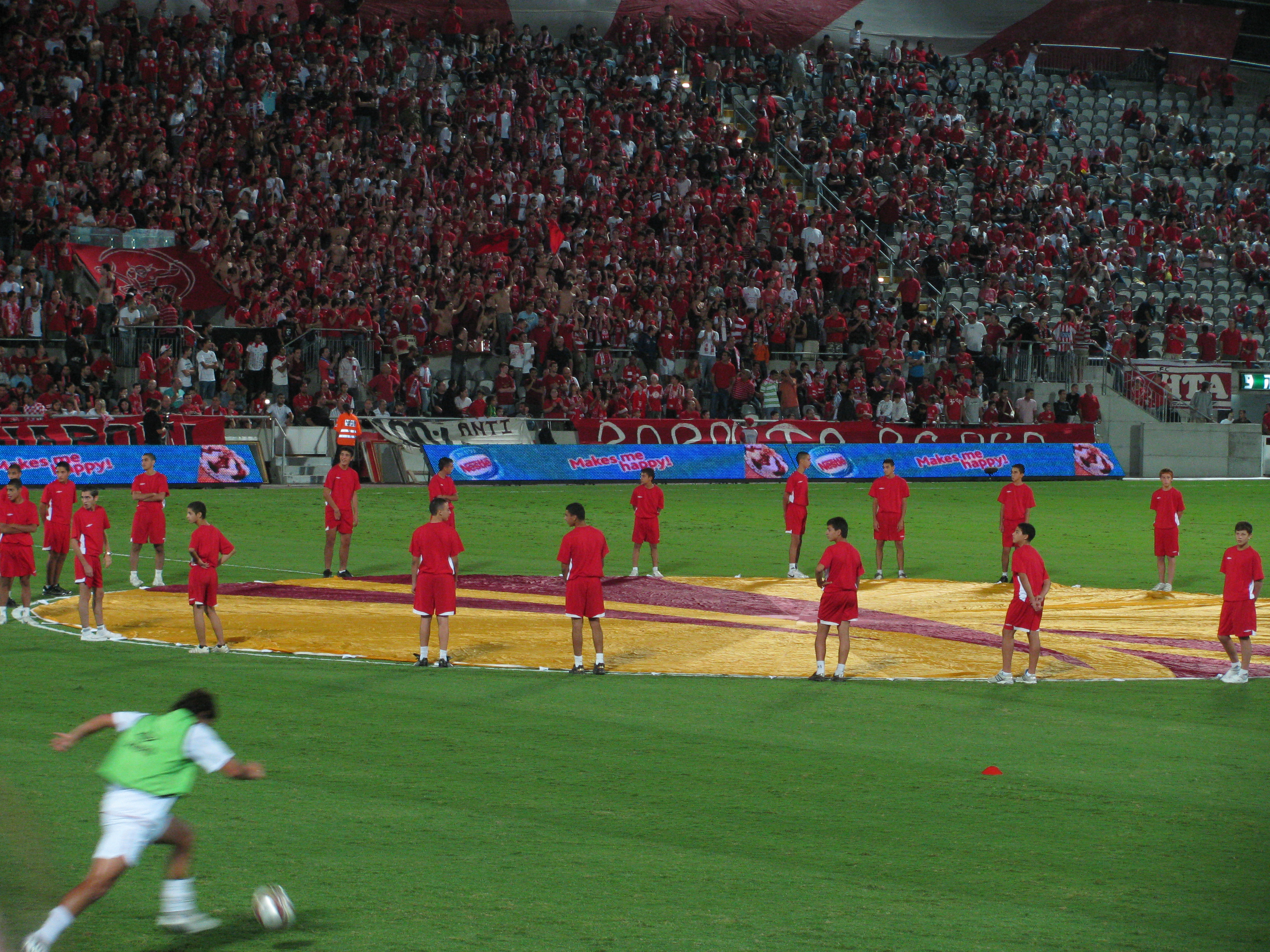 Hapoel Tel Aviv vs Rapid Wein Europ League groupe base 24/10/2009